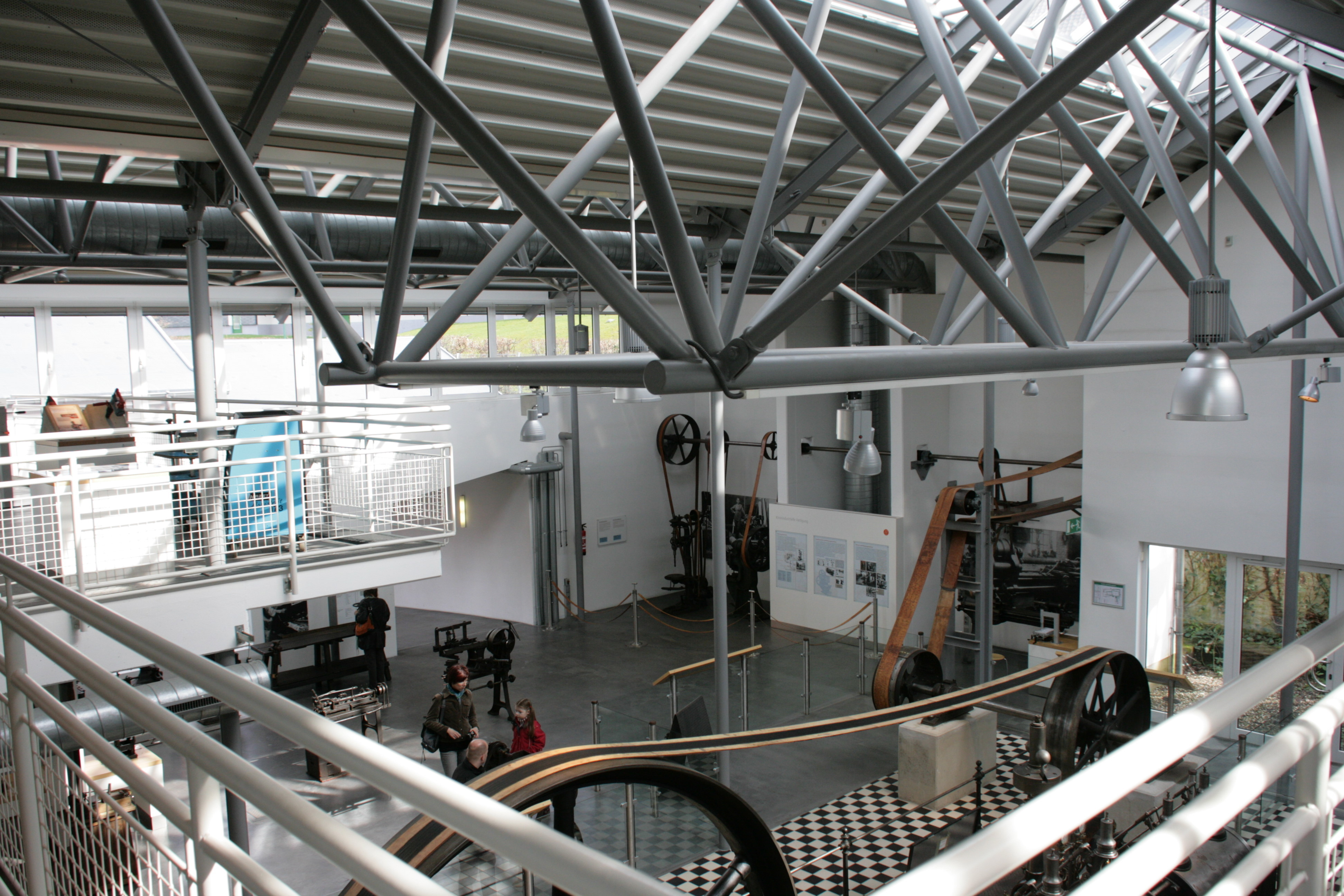 Deutsches Werkzeugmuseum, Cleffstraße 2-6 in Remscheid